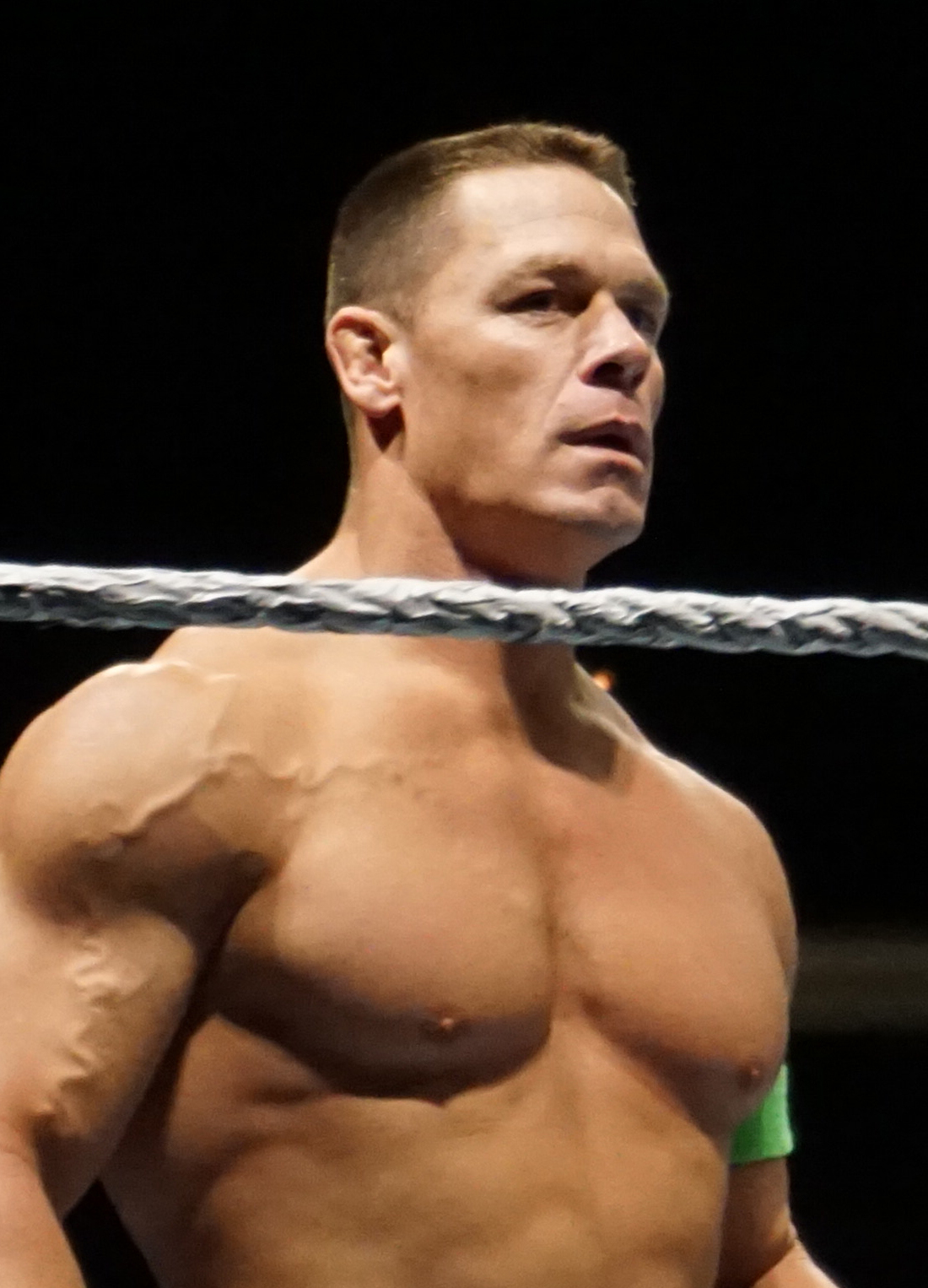 Cena at the WWE live show in Buffalo, NY on March 25th, 2018